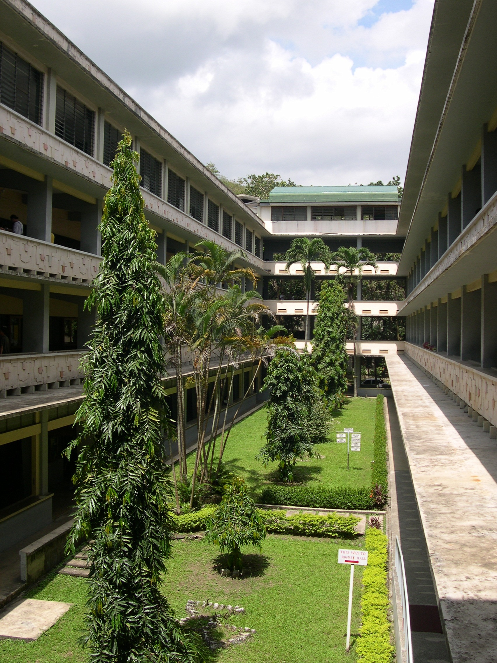 Talamban Campus, University of San Carlos in Cebu City, The Philippines